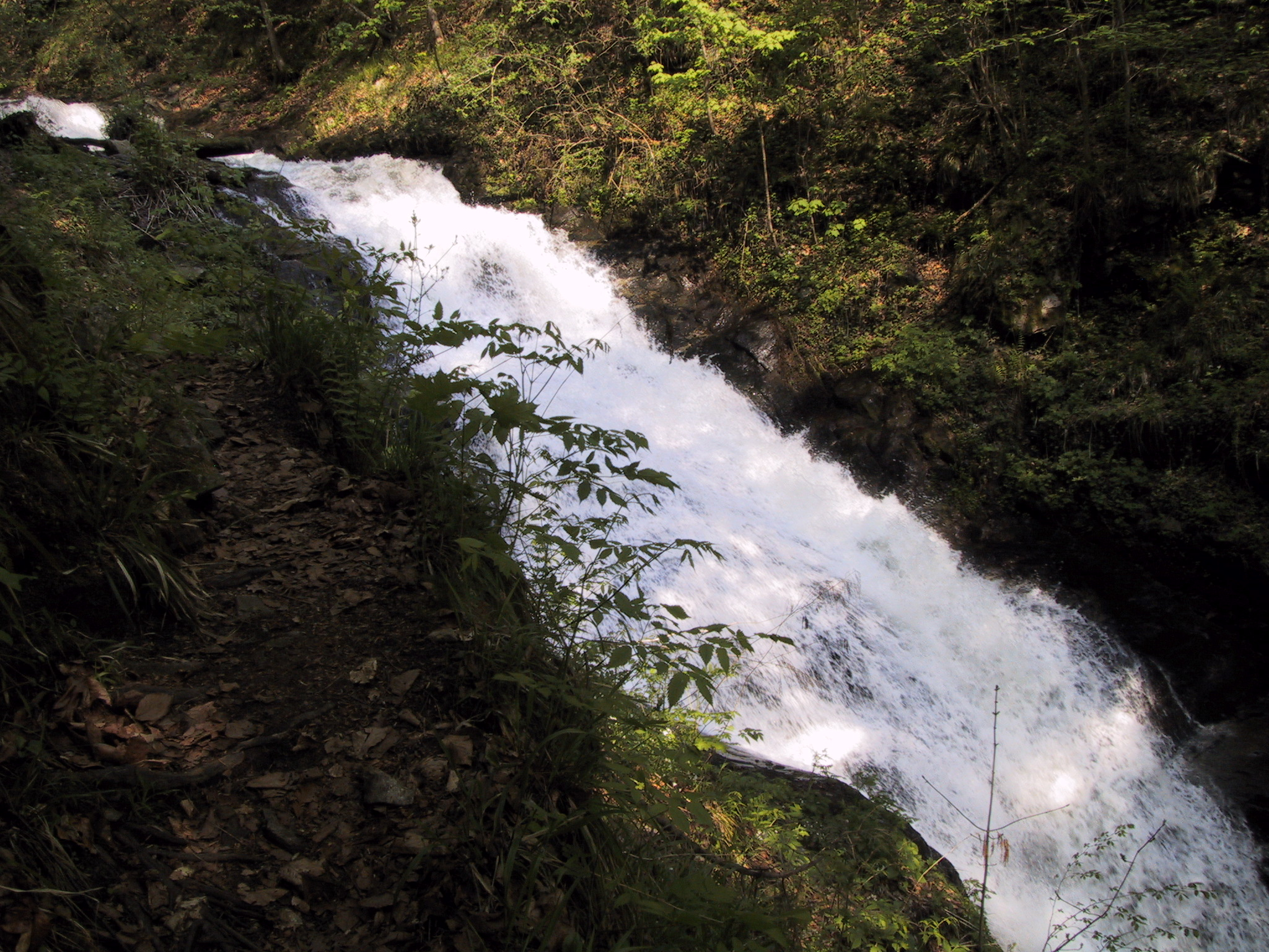 Bistriški waterfall noise in the Bistrica brook on Pohorje, Slovenia